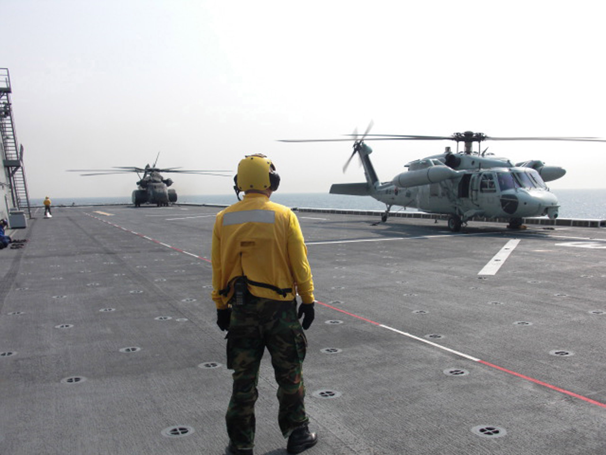 AT SEA (May 1, 2009) A U.S. CH-53E “Super Stallion” assigned to Helicopter Mine Countermeasures Squadron 14 Detachment One lands on the deck of the Republic of Korea amphibious assault ship Dokdo (LPH 6111) behind a ROK UH-60. U.S. and ROK helicopters practiced landing on Dokdo today as part of interoperability training. HM-14 Det. 1 is currently deployed to Pohang, Republic of Korea and serves under the Commander, Amphibious Force 7th Fleet, Rear Adm. Richard Landolt. (U.S. Navy photo by Lt. Nicklaus Smith/Released)